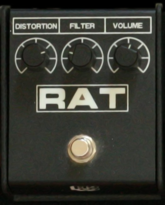 ProCo Rat2 Mean distortion box, verges on fuzz with the tone/filter control. Replaces a Vintage Rat Reissue which had no on/off LED and a bit less gain. Also a great throwing weapon, the thing is built as a tank.